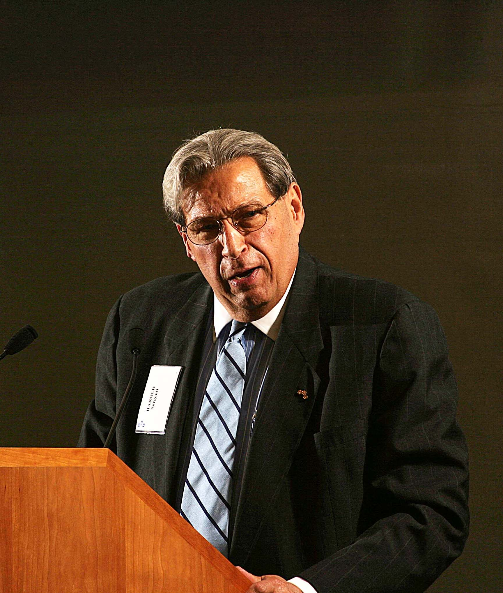 Photograph of Harold Sorgenti, chemist and businessman, speaking at the 2004 Heritage Day awards, 17 June 2004, Chemical Heritage Foundation, Philadelphia, PA, USA.